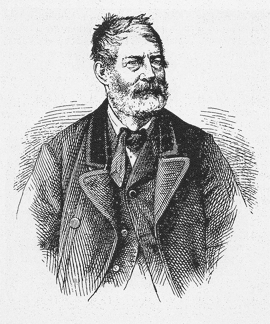 portrait Wilhelm von Waldbrühl